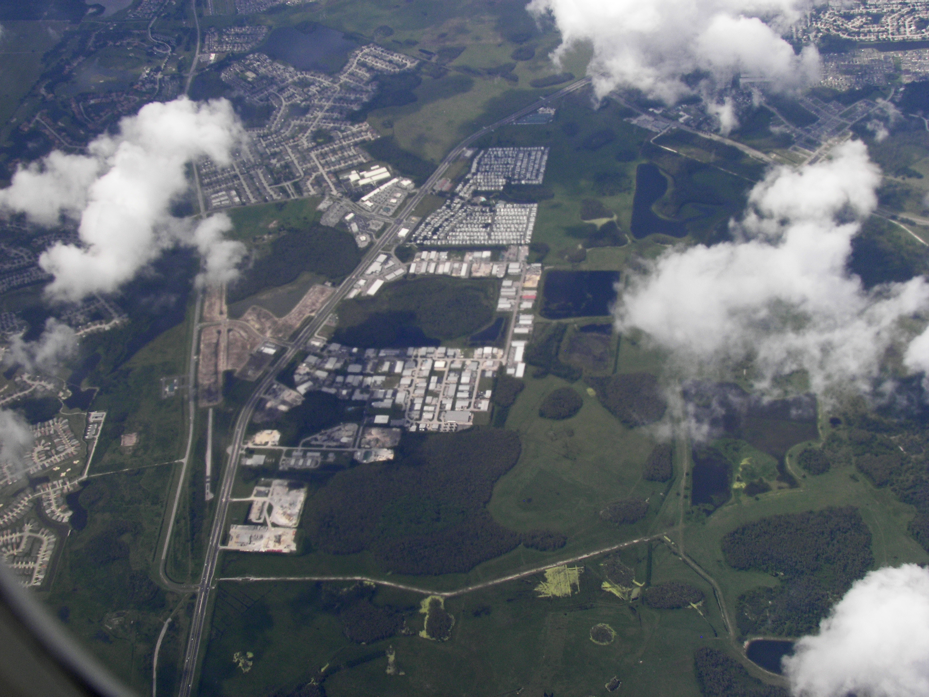 Aerial view of State Road 54 and the former Tampa Bay Executive Airport in Odessa, Hillsborough County, Florida.